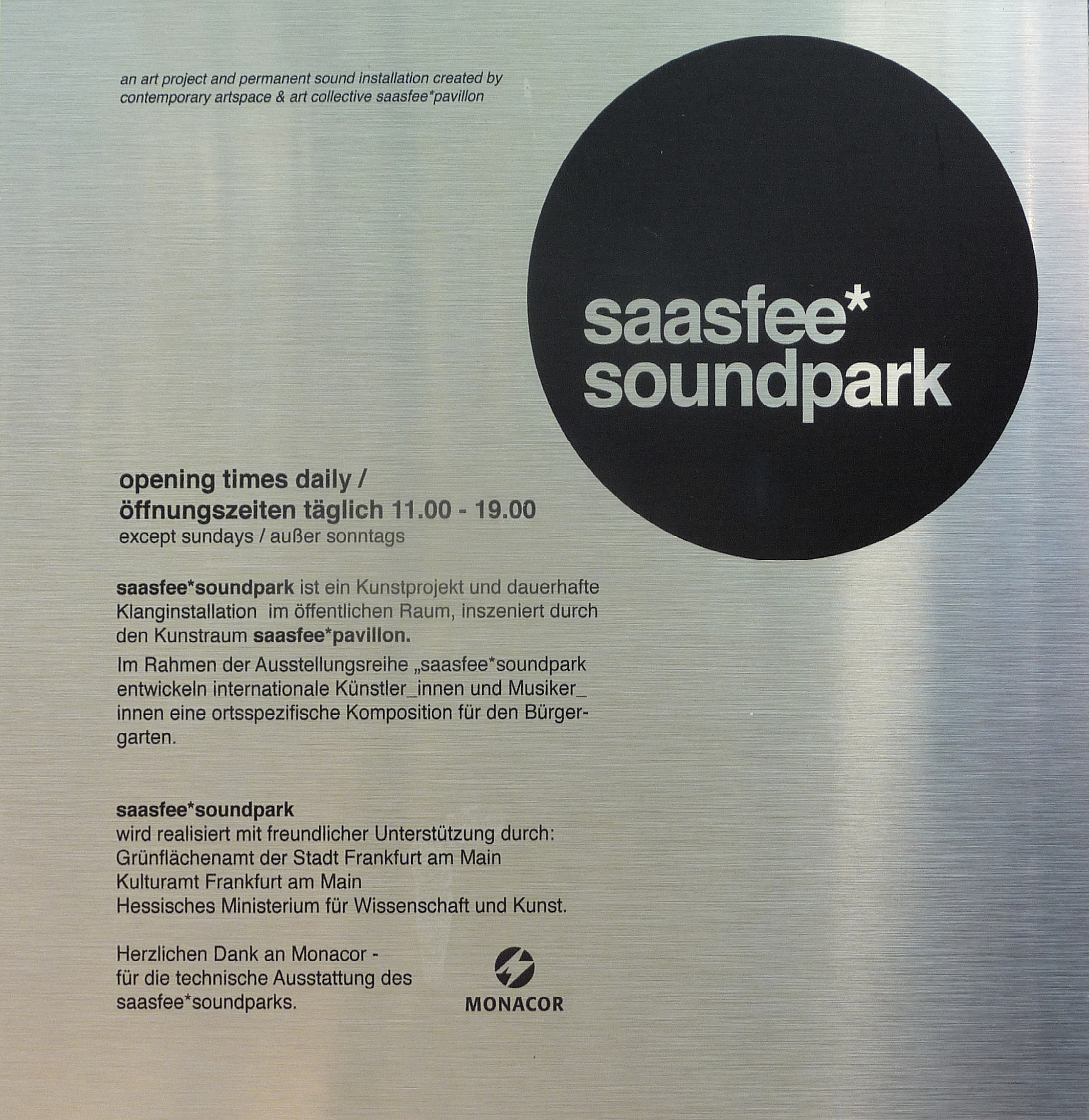 saasfee*soundpark is an art project and permanent sound installation in the city of Frankfurt-am-Main, Germany. The project, located in a public park and residing in a neighbouring pavillon, presents contemporary works of international sound artists and musicians. Shown here is a plaque of the project at one of the park’s gates